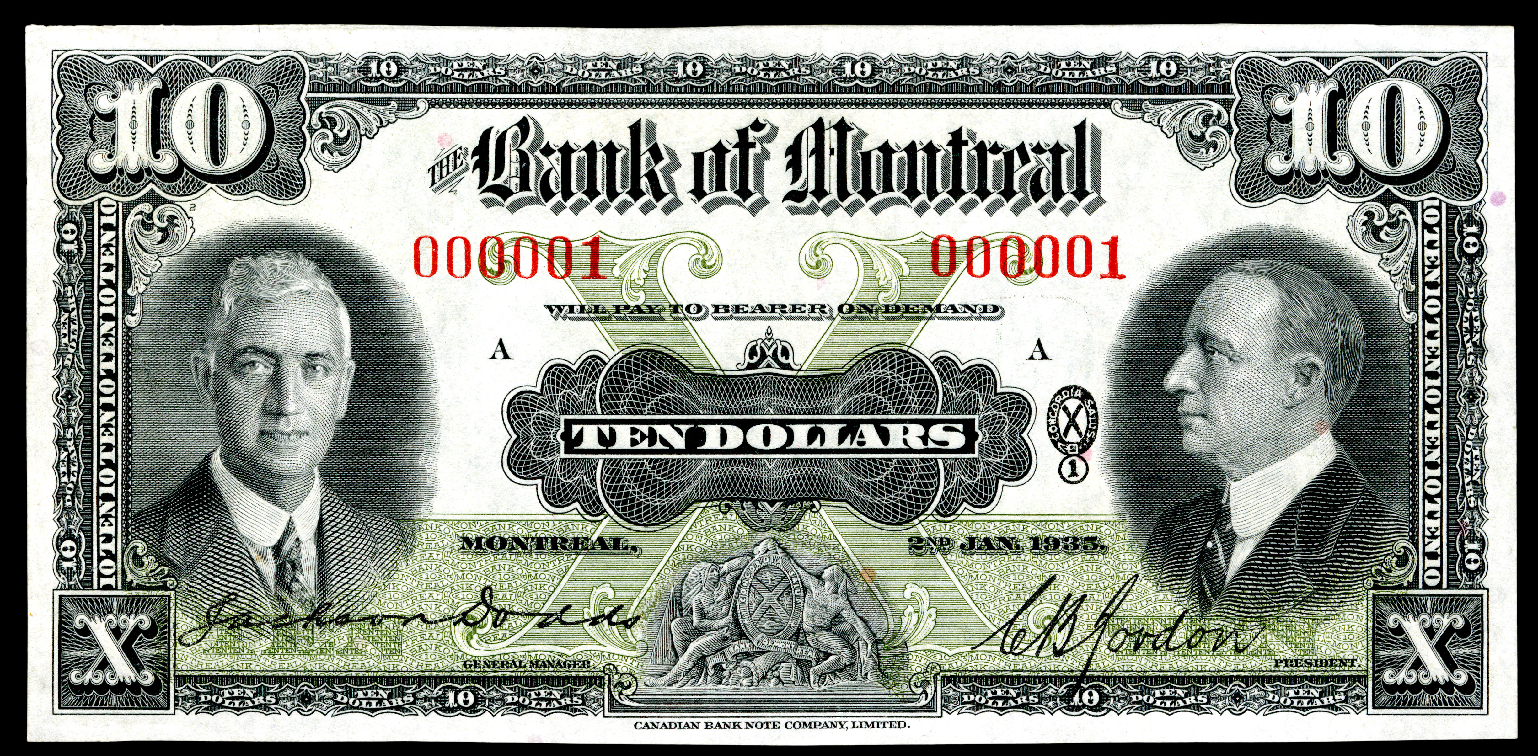 Bank of Montreal $10 note, 1935, face only